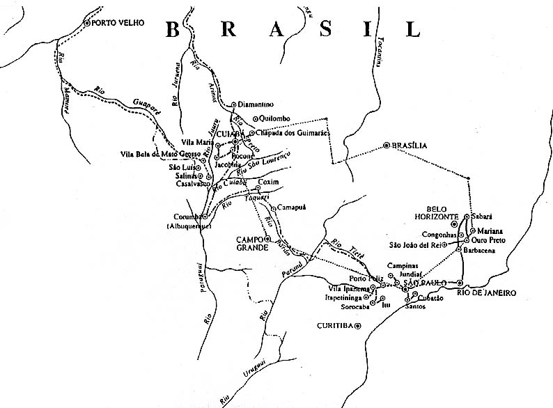 Chart of the Langsdorff Expedition (1826-1829) in Brazil, by Baron von Langsdorff, a German physician and naturalist, for the Russian Imperial Academy of Sciences. Public domain image adapted from original documents by Langsdorff.